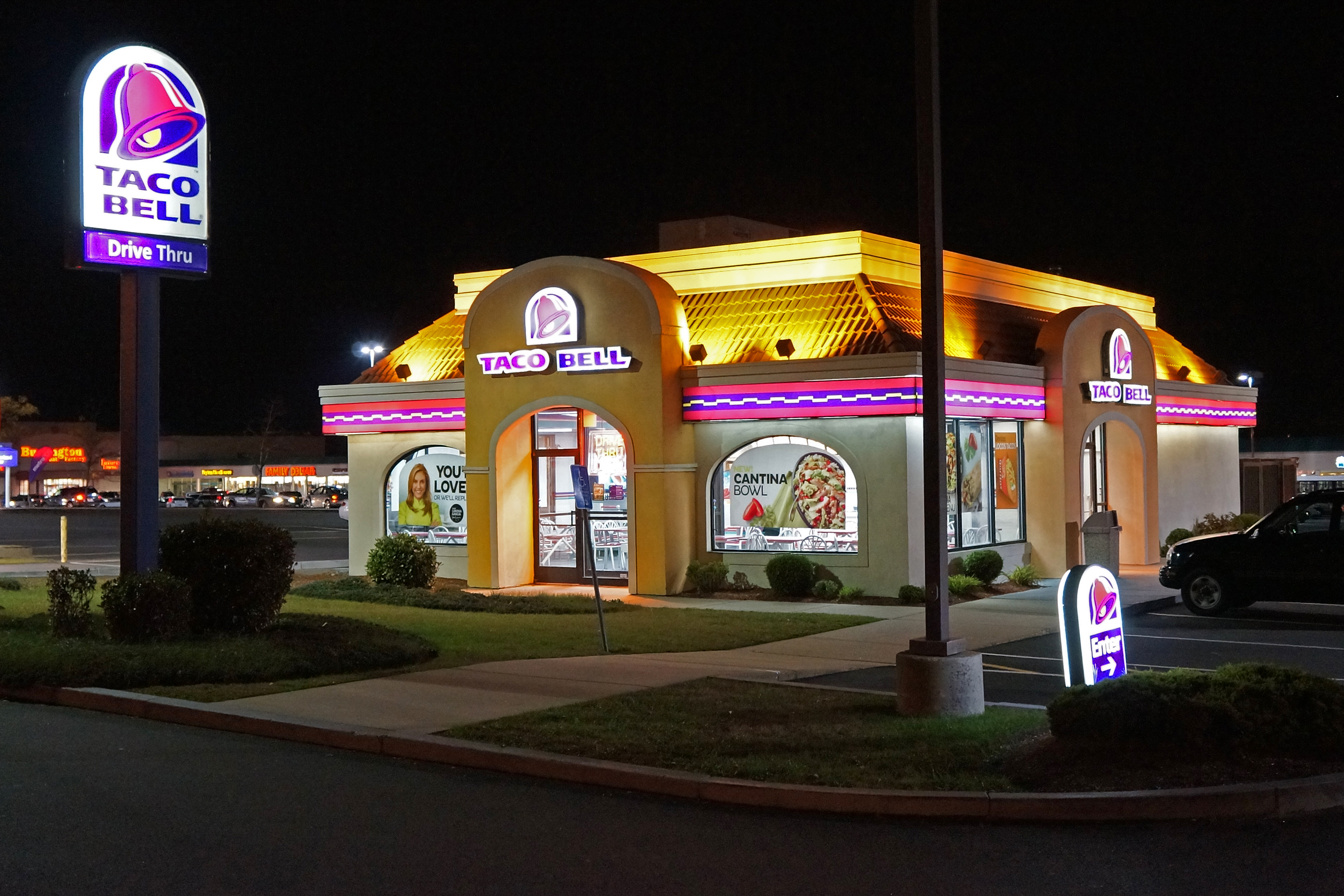 Taco Bell restaurant, Northgate shopping center, Revere, Massachusetts USA. Night view.